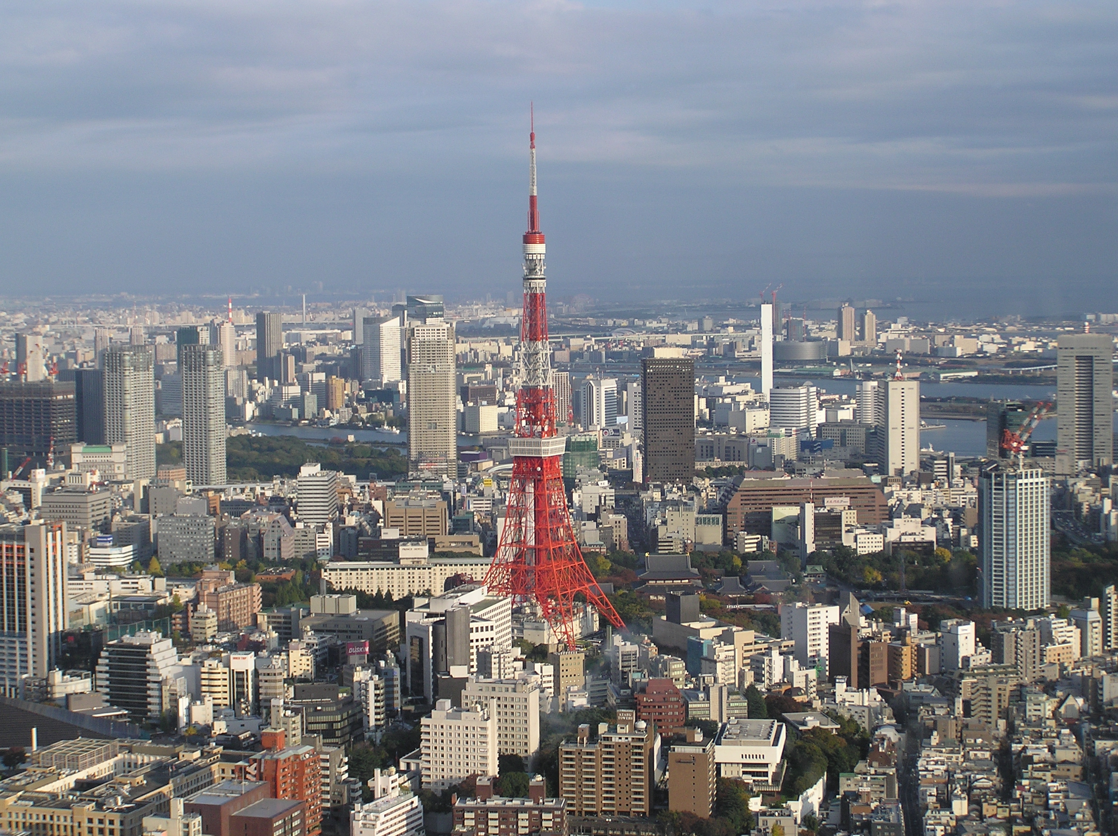 Tokyo Tower from Roppongi